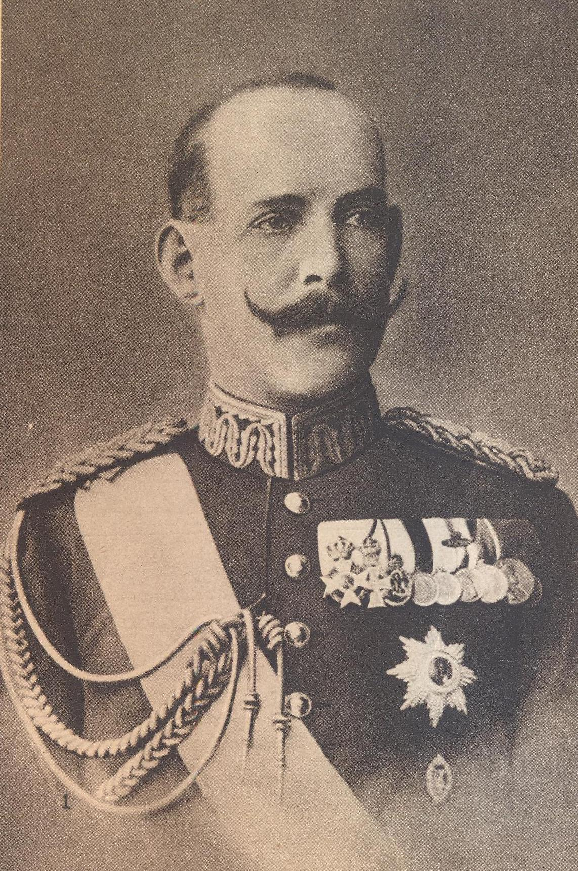 Constantine I of Greece. Rudolf Mosse, "Album de la Grande Guerre" №10, 1915